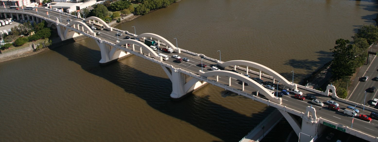 William Jolly Bridge, Brisbane view from an oblique aerial vantage.